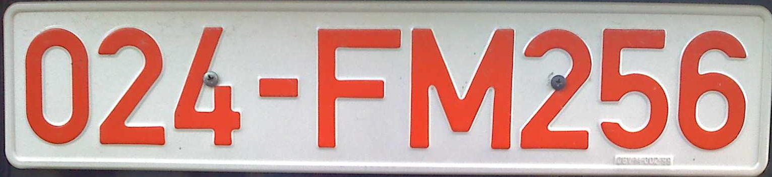 Diplomatic licence plate of Portugal